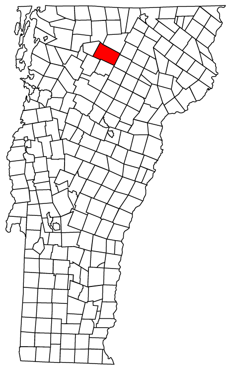 Description: Map of Vermont towns with Eden highlighted Source: Map created by Jared C. Benedict on 26 March 2004. Copyright: © Jared C. Benedict.